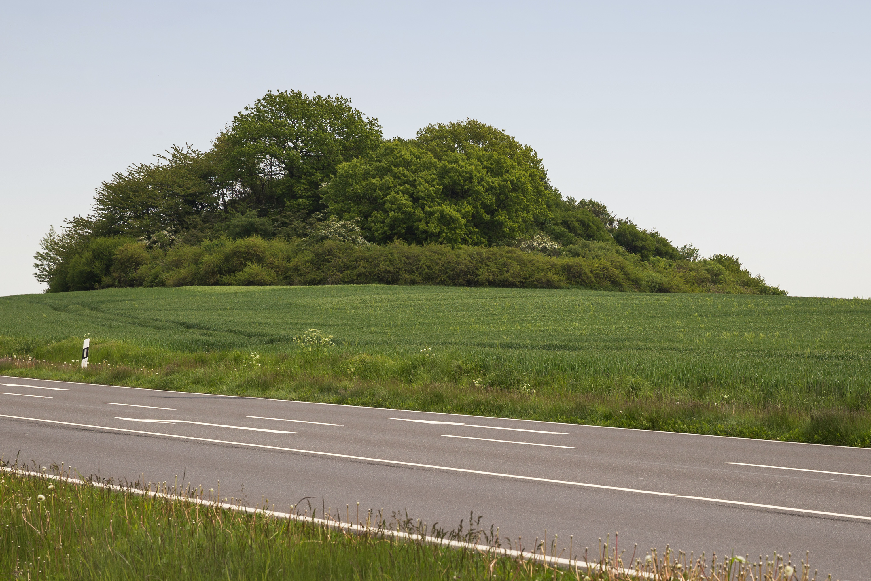 Dobberworth, tumulus near Sagard, island of Rügen